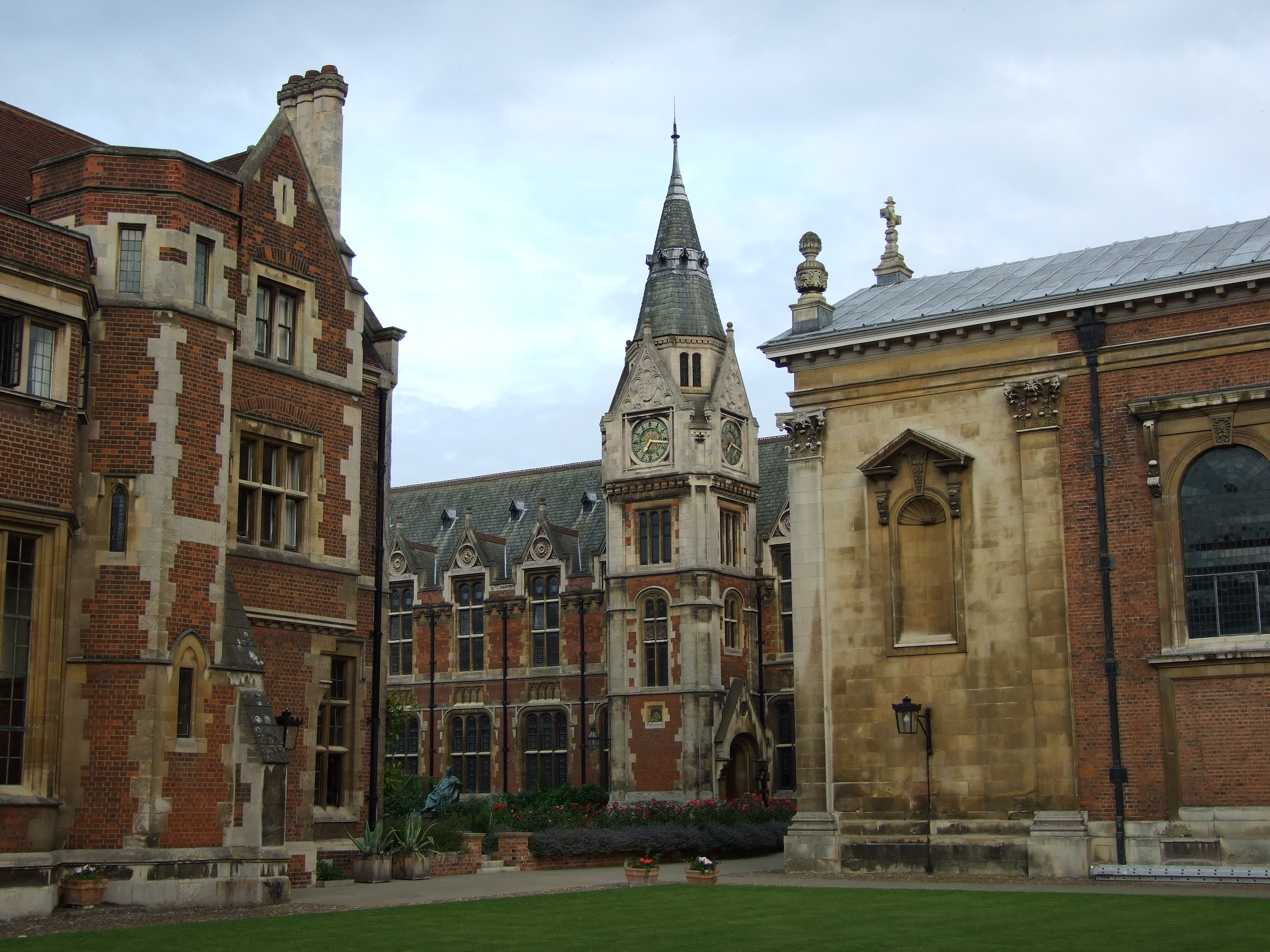 Pembroke College main court.